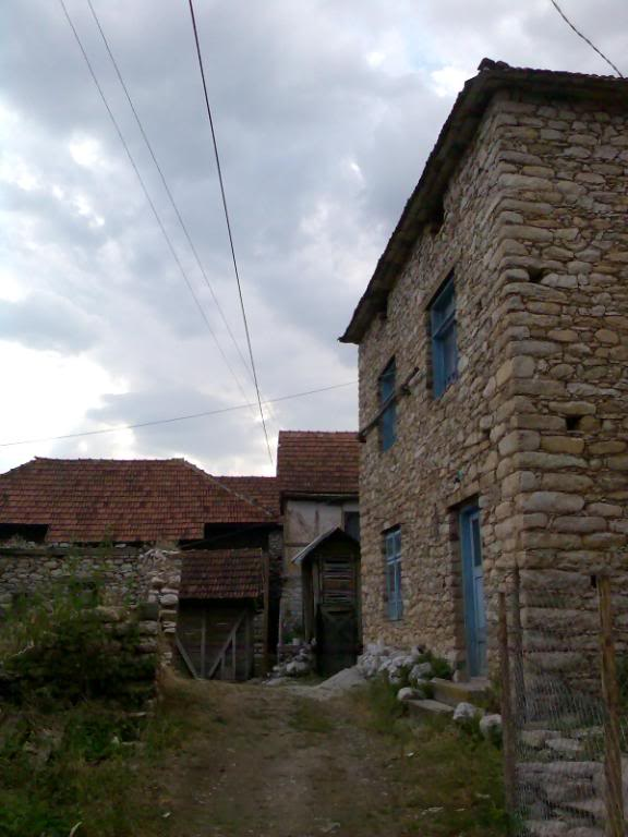 Village of Belica, Poreche region, Republic Macedonia